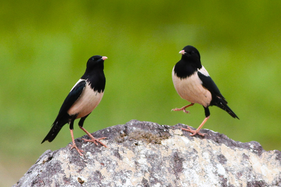 Rosy Starling Pastor roseus, between Almaty and Sorbaluk Lake, Kazakhstan